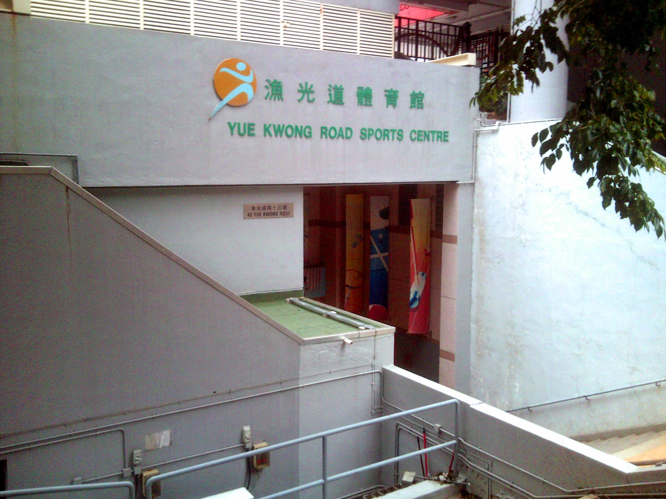 Yue Kwong Road Sports Centre